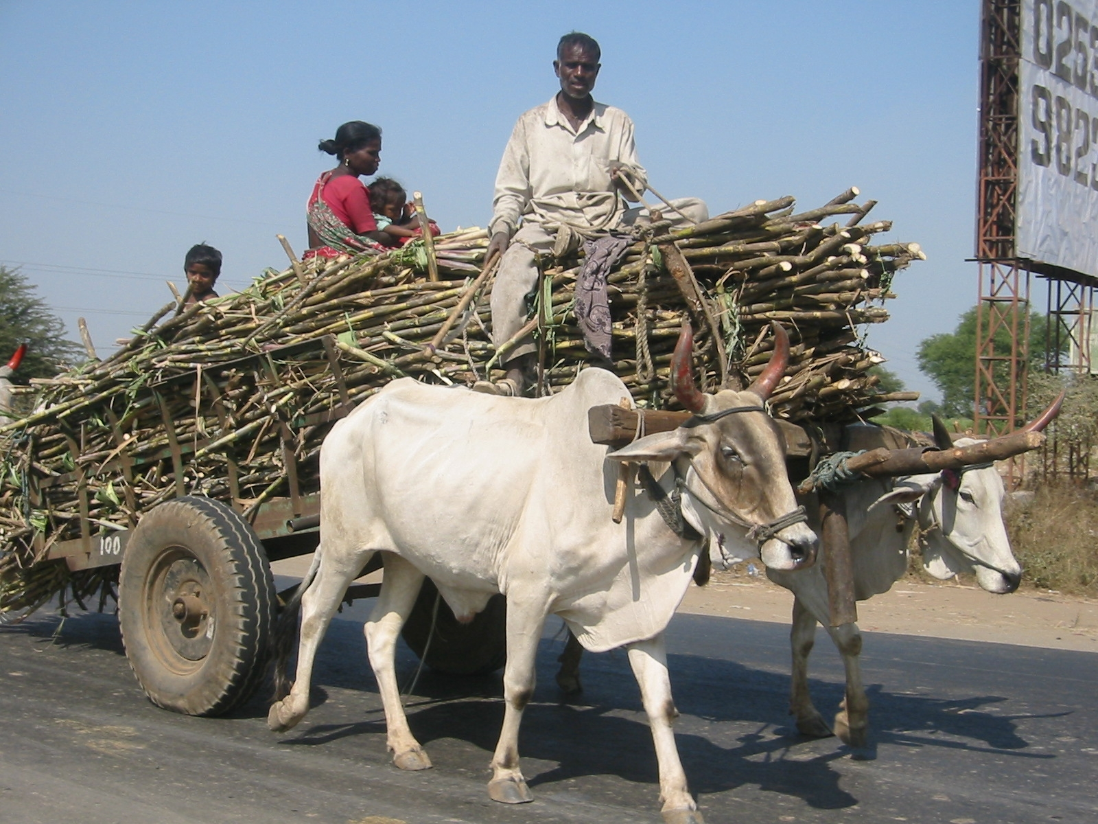 Sugar cane on a bullock cart, Maharashtra, India.